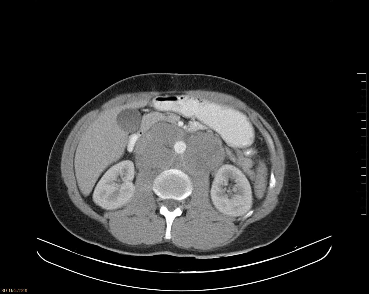 Retroperitoneal and bilateral lymphadenopathies of left testicular seminoma, come together and embrace the aorta, extending towards the posterior mediastinum. Man of 44 years old. Computed Tomography image.